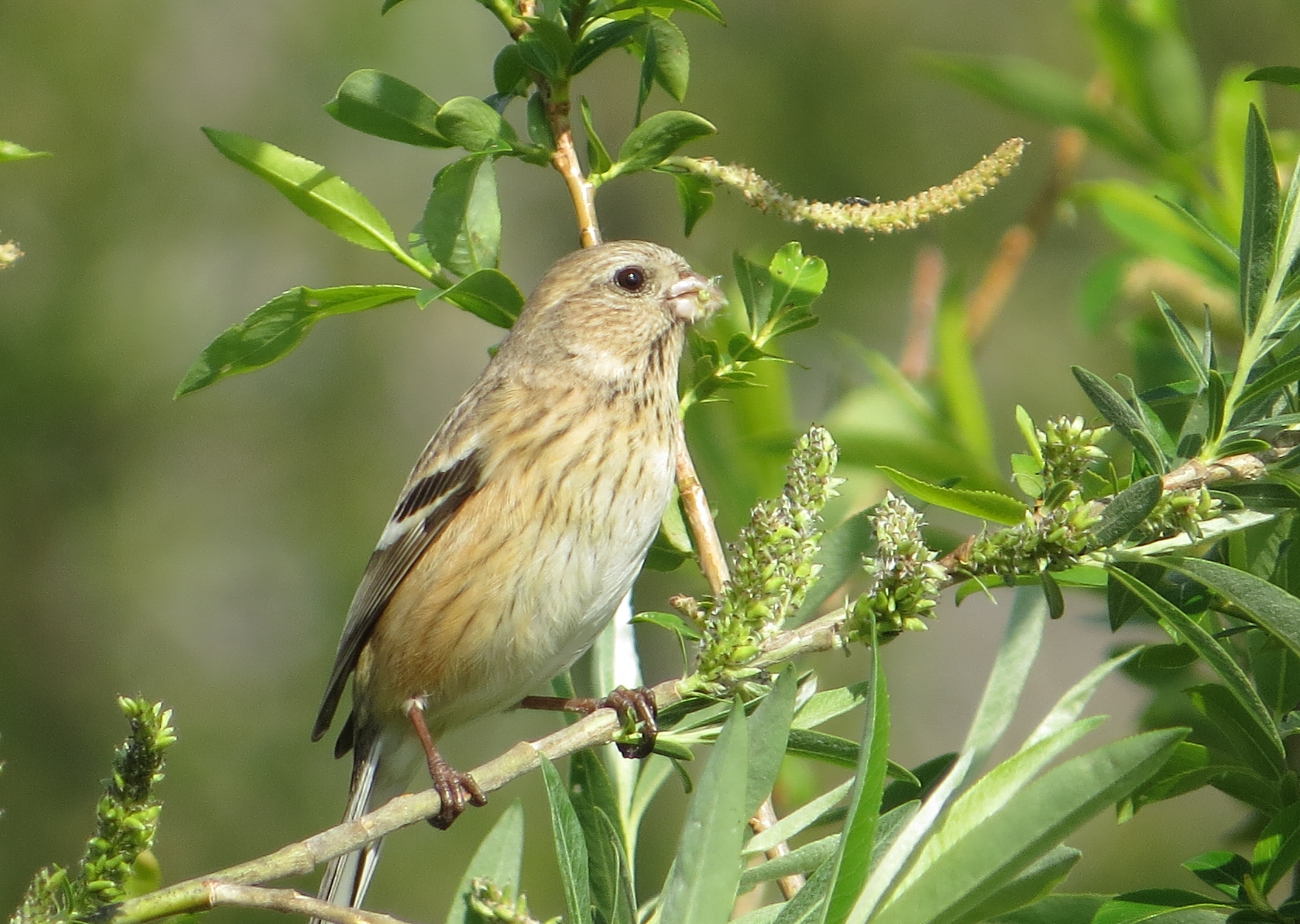 Long-tailed Rosefinch (Uragus sibiricus sanguinolentus), female eating bud, in Aichi prefecture, Japan.